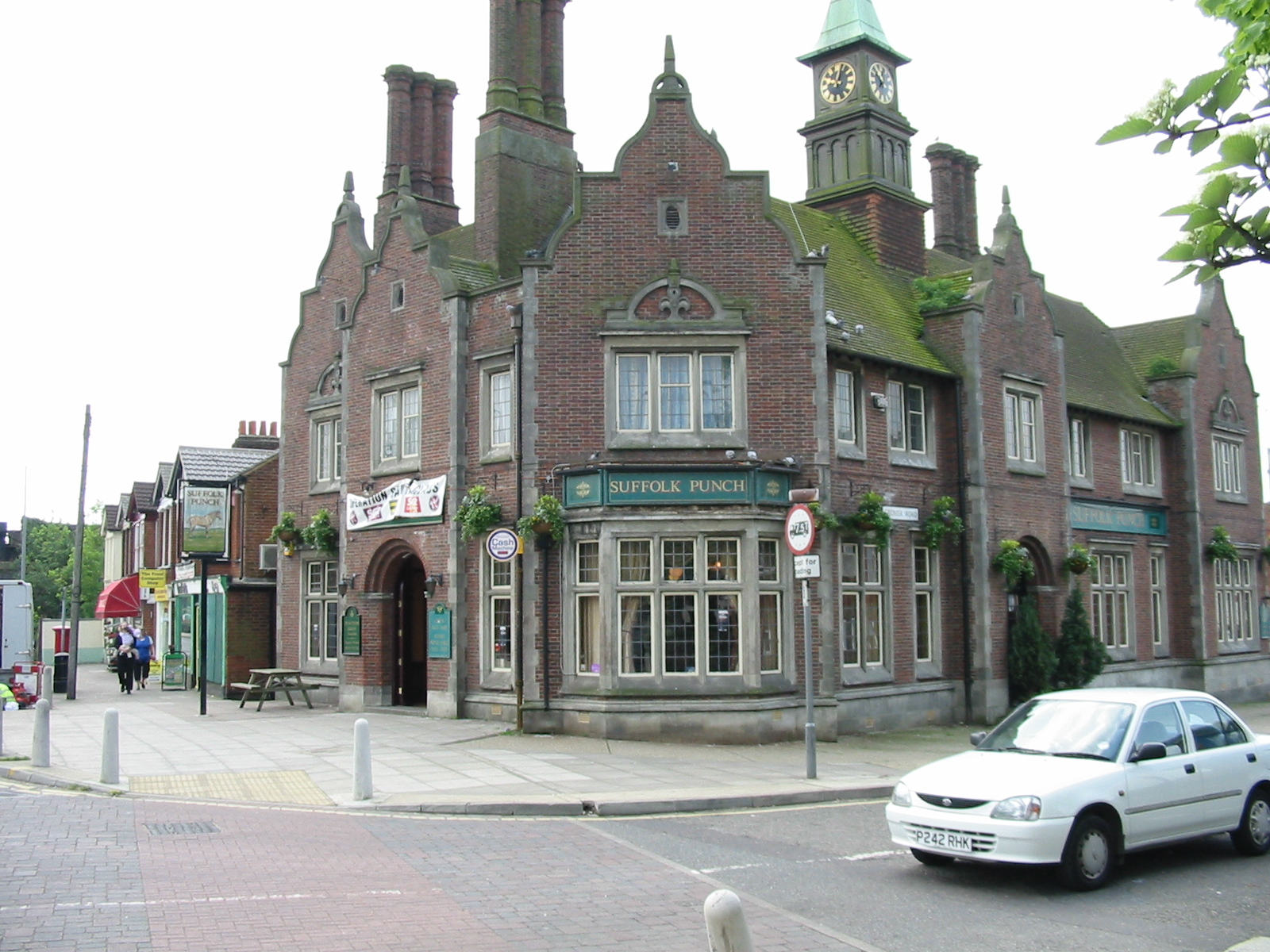 The Suffolk Punch, Ipswich. One of Tolly Cobbold's Tolly Follies.